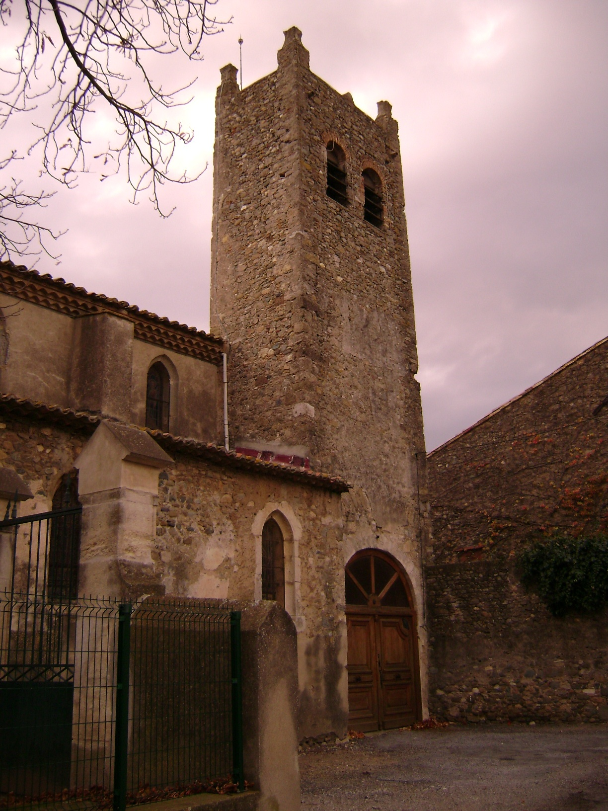 Saint Sebastian church of Mirepeisset , Aude, France